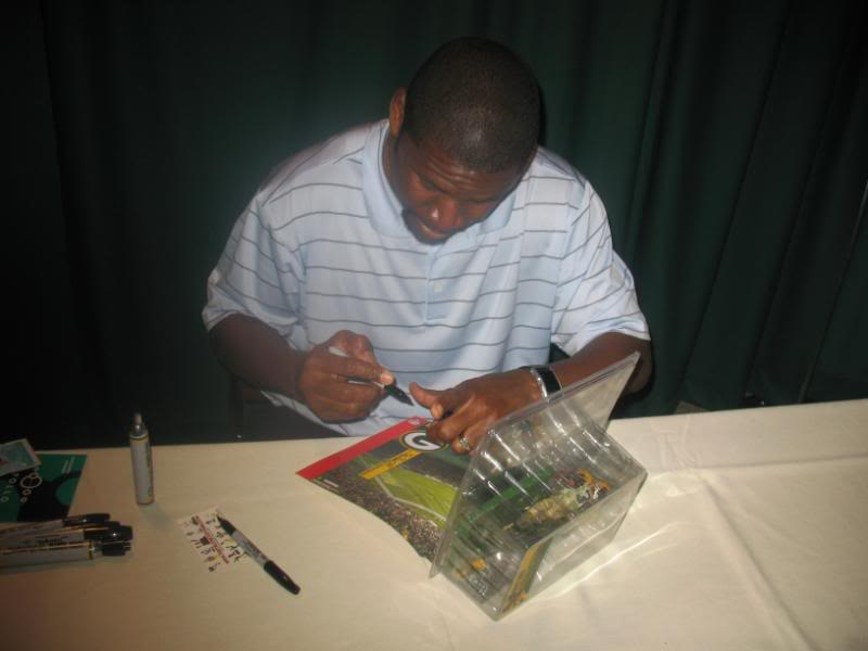 Edgar Bennet signing autographs in 2008.